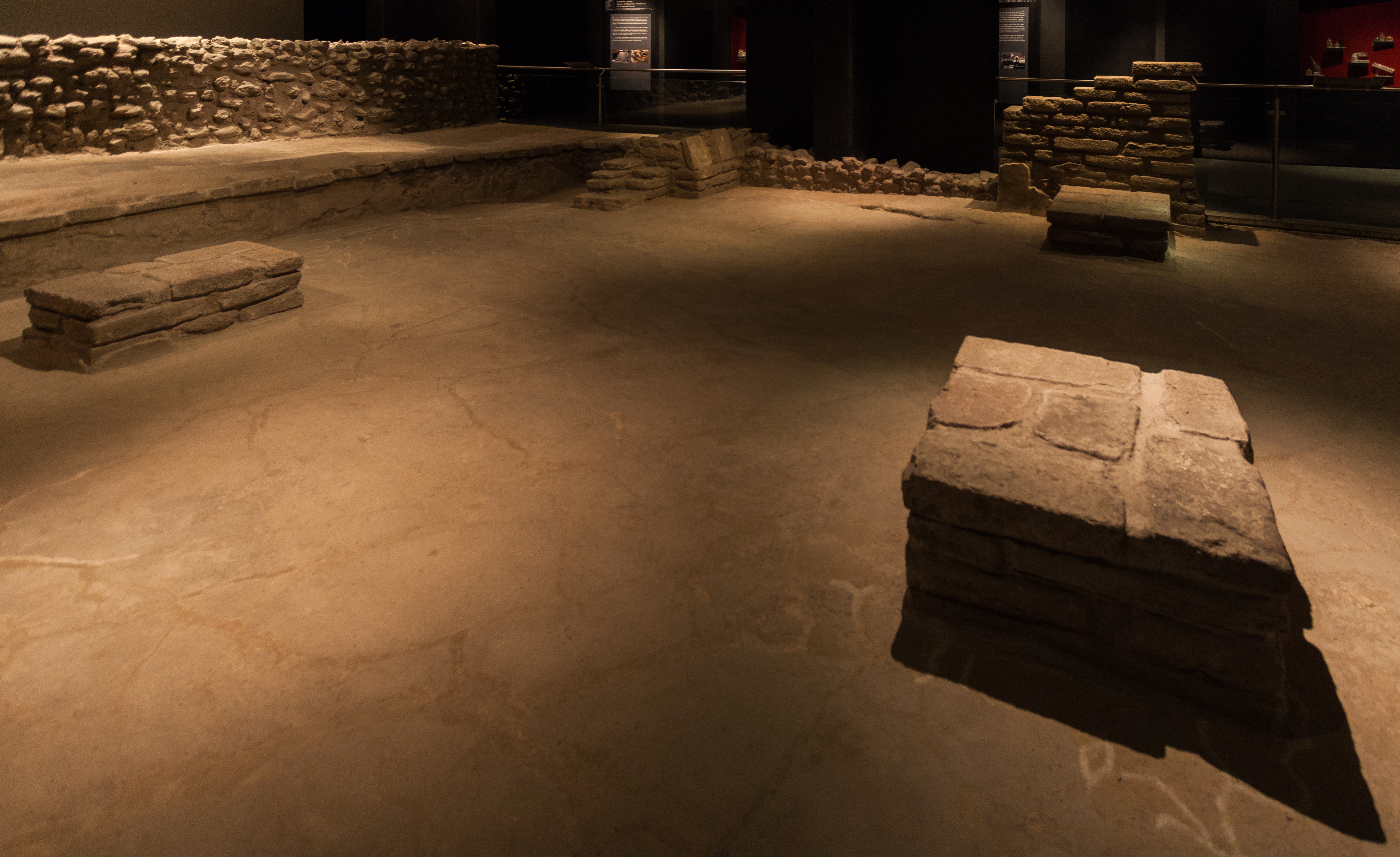 Museo de Sitio del Centro Cultural de España en México, México D.F., México